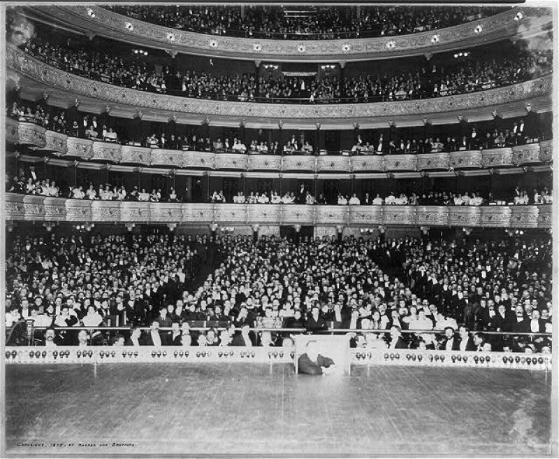 The interior of the Metropolitan Opera House. With an audience of over 3,500 people, on the occasion of Max Alvary's 100th appearance in Wagner's Siegfried January 13, 1888. Metropolitan Opera House (39th St), New York